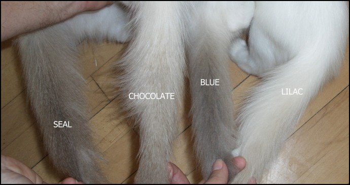 Four main ragdoll colours. Seal is most frequent, then follow blue. Chocolade and lilac are very rare.